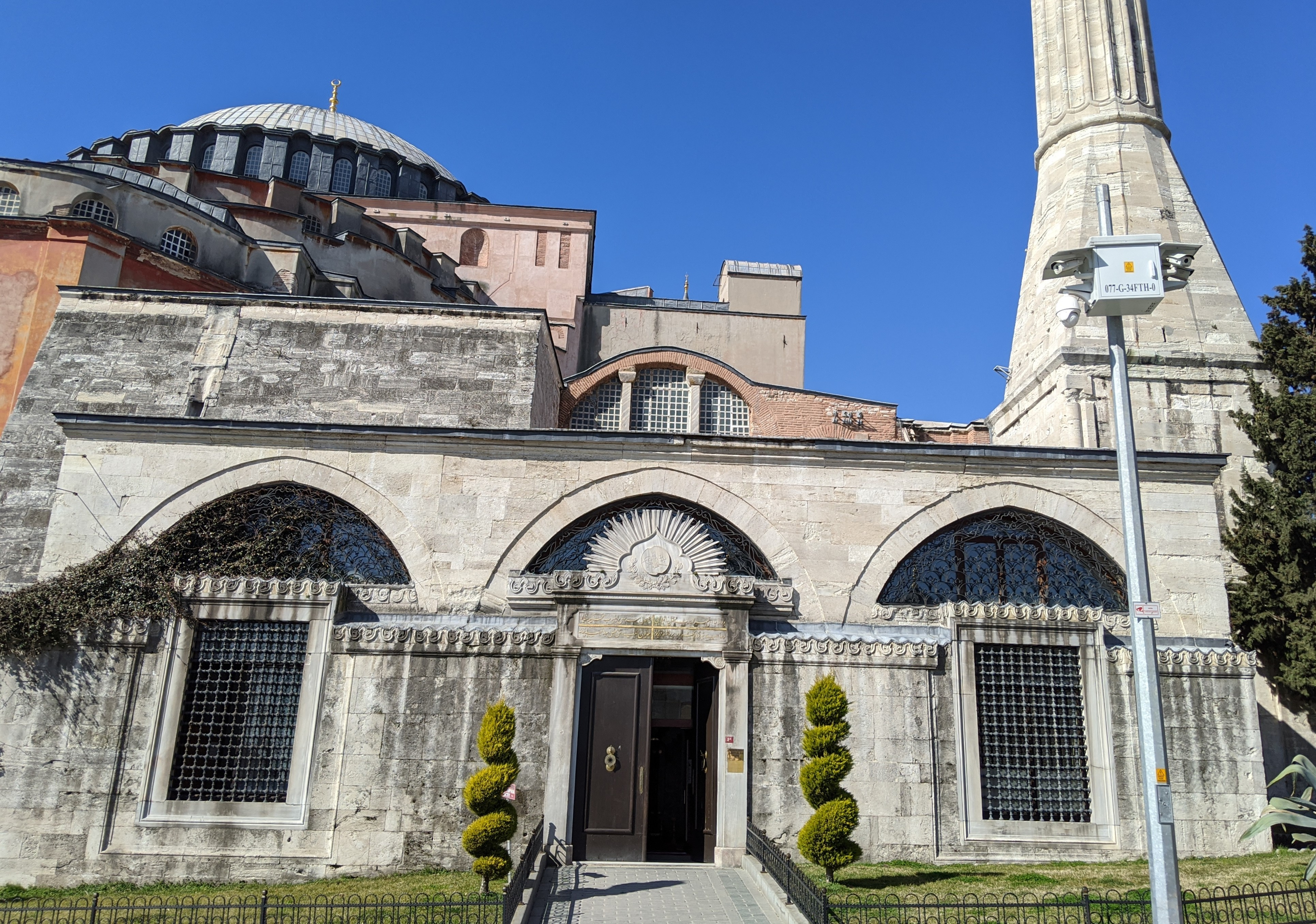 Hagia Sophia prayer room exterior. Not part of the museum but open for Muslim employees and visitors for daily prayers.